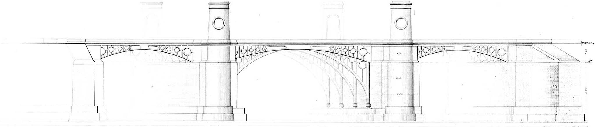 Railway Bridge over the Delshavense Schie, Delfshaven (now Rotterdam). 1846 (construction).